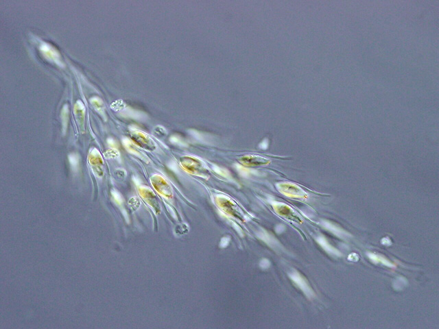 Dinobryon sp. / from Shishitsuka Pond, Tsuchiura, Ibaraki Pref., Japan / Microscope:Leica DMRD (DIC)